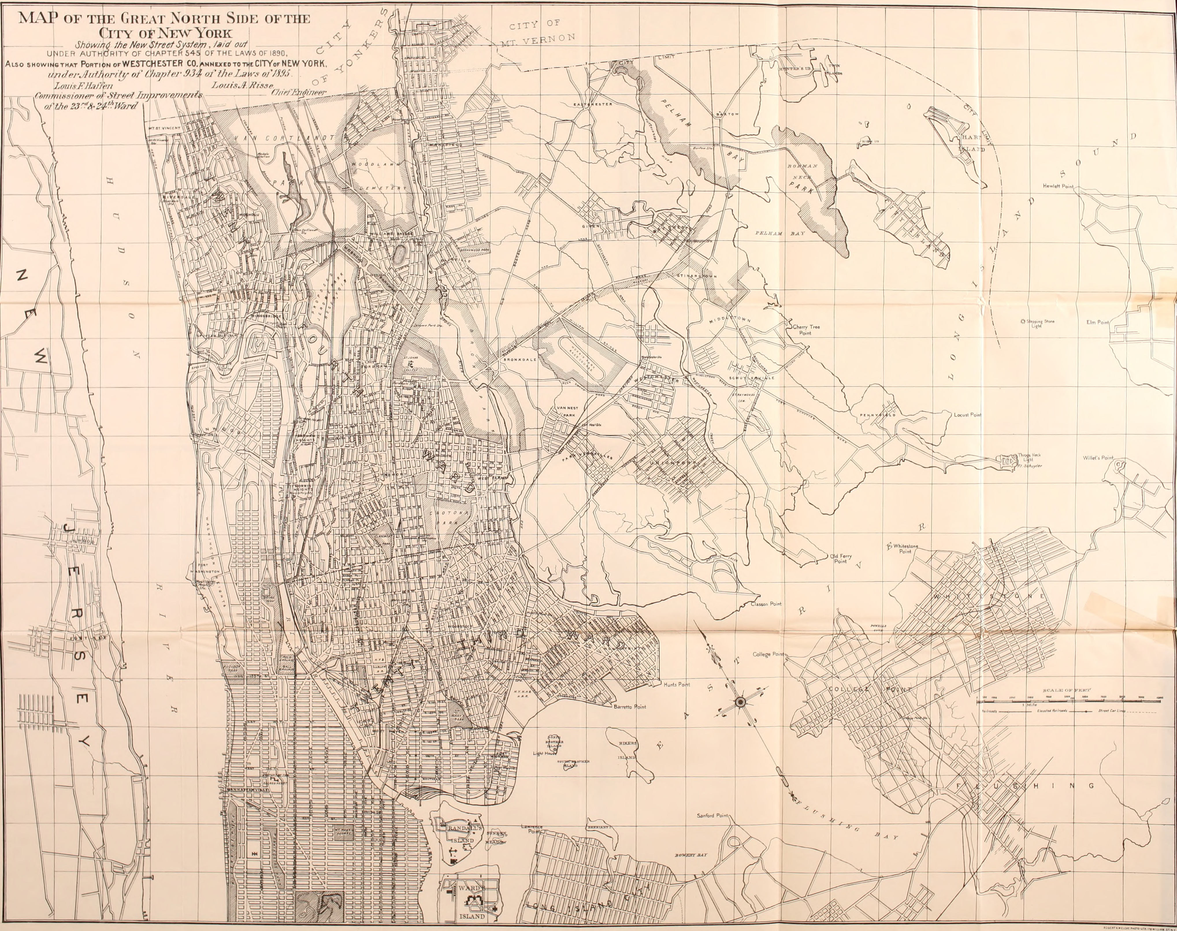 Title: The Great north side, or, Borough of the Bronx, New York Year: 1897 (1890s) Authors: Durst, Seymour B., 1913-, former owner. NNC North Side Board of Trade (Bronx, New York, N.Y.) Subjects: Publisher: New York : Knickerbocker Press Text Appearing Before Image: ' Text Appearing After Image: Digitized by the Internet Archivein 2013 1greatnorthsideor00durs